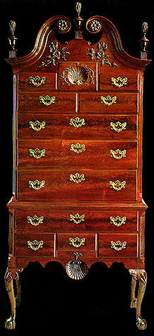 High chest of drawers (tallboy, highboy).